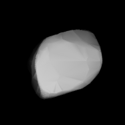 3D convex shape model of 1493 Sigrid, computed using light curve inversion techniques. J. Hanuš, J. Ďurech, M. Brož, B. D. Warner (June 2011). "A study of asteroid pole-latitude distribution based on an extended set of shape models derived by the lightcurve inversion method". Astronomy and Astrophysics 530: A134. ISSN 0004-6361. arXiv